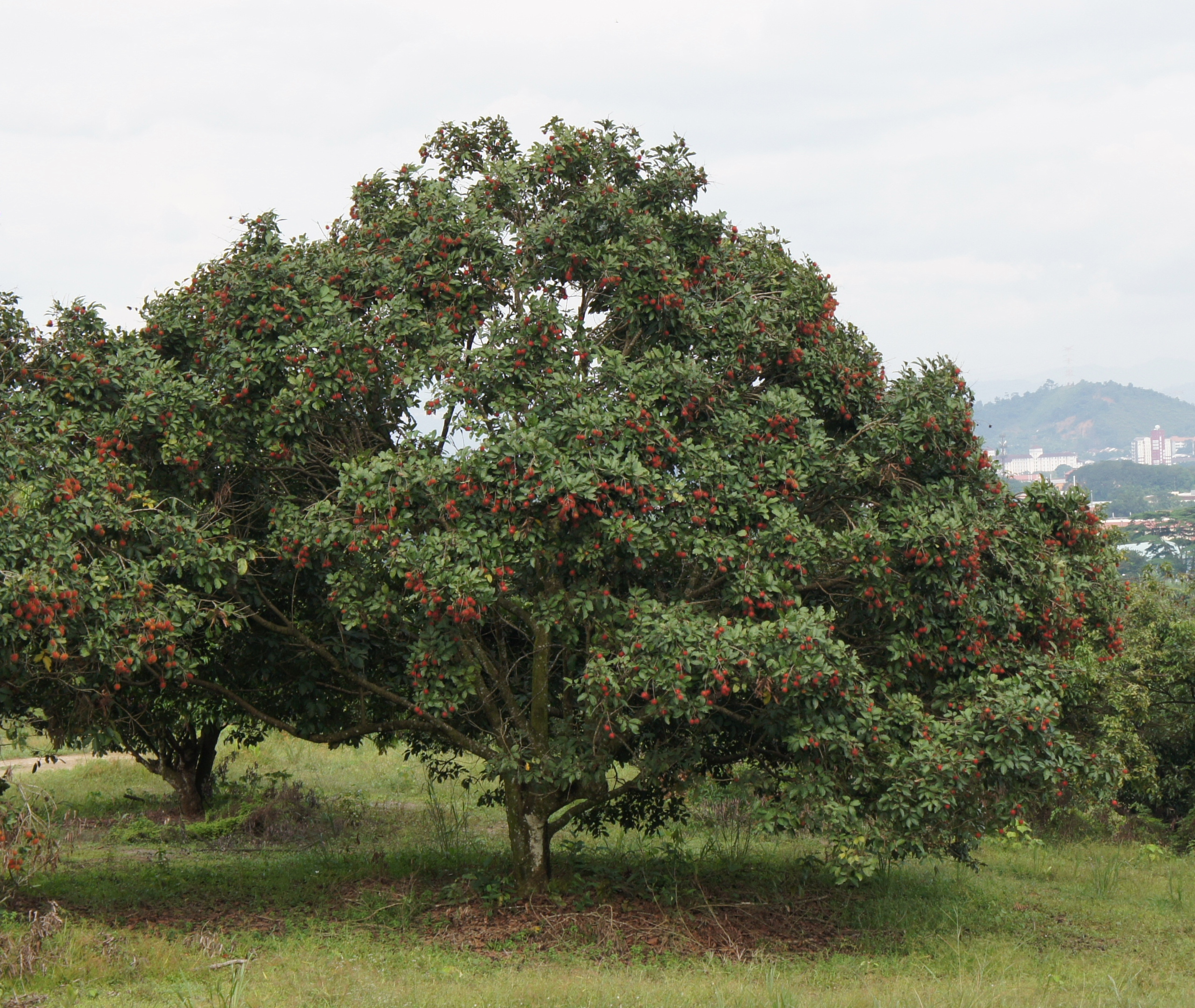 Rambutan tree (Nephelium lappaceum). Location: Serdang, Selangor, Malaysia